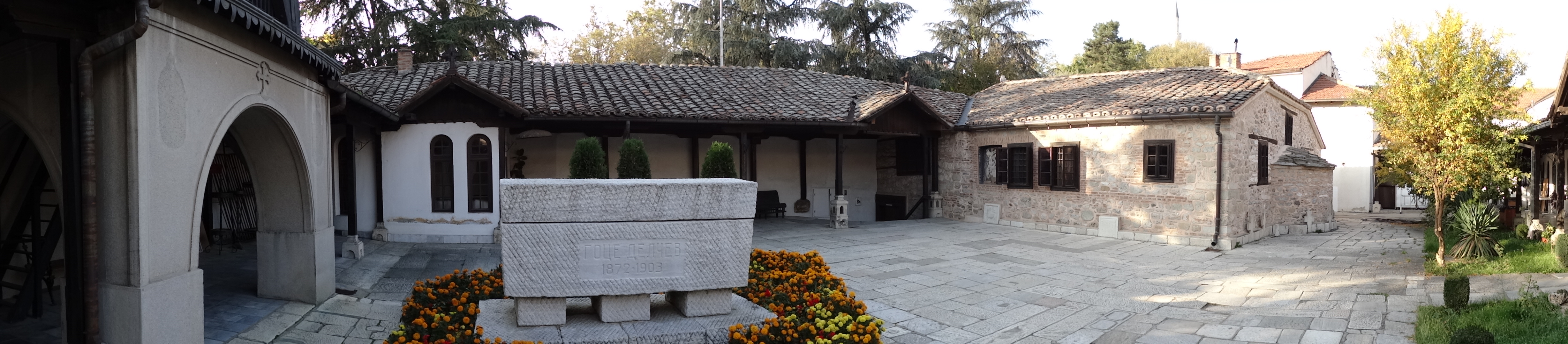 Panorama of Courtyard of Sveti Spas Orthodox Church